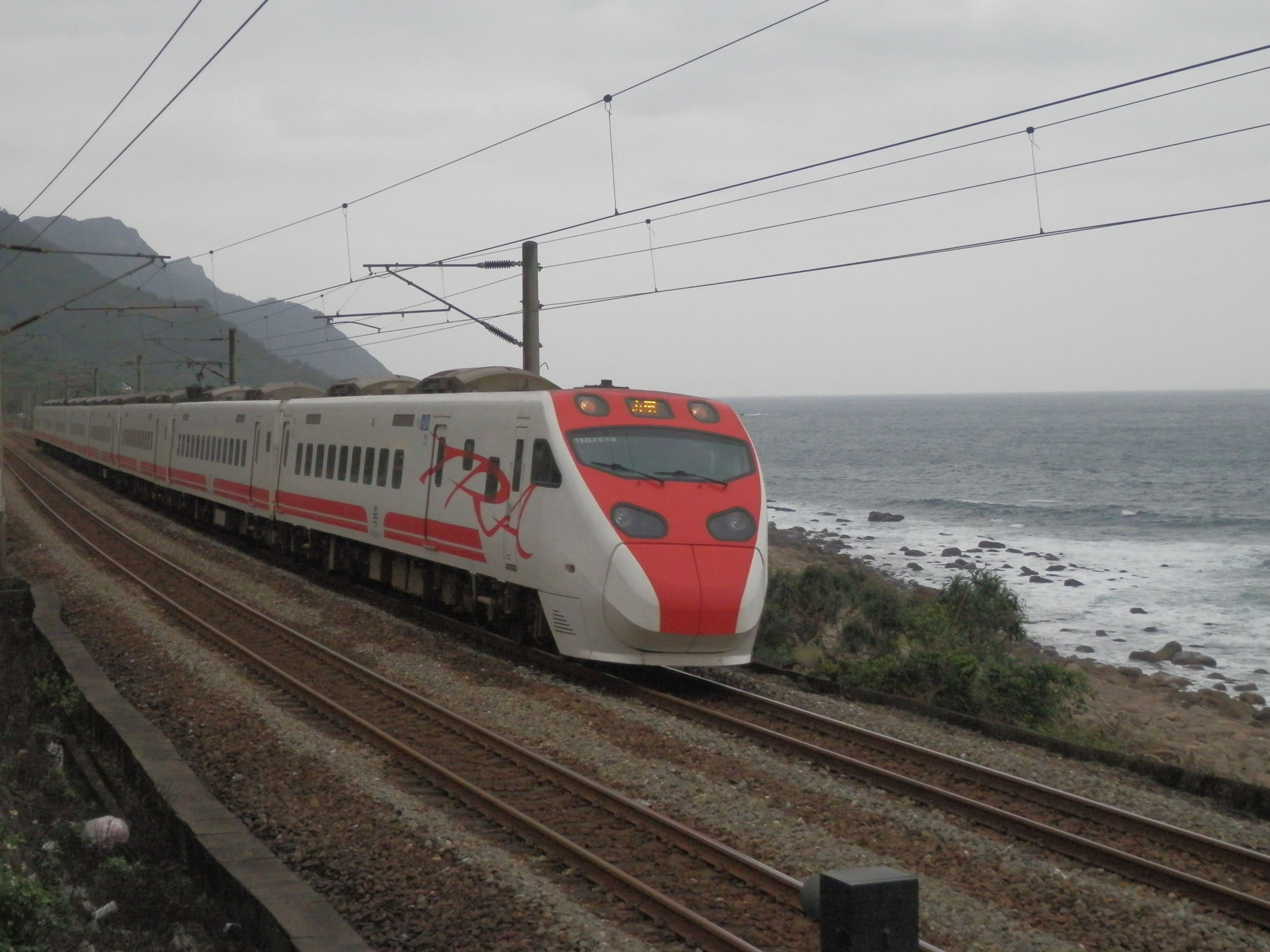 TRA Tze-Chiang Ltd-Exp Type EMU TEMU2000 at Yilan Line between Shicheng Station and Dali Station